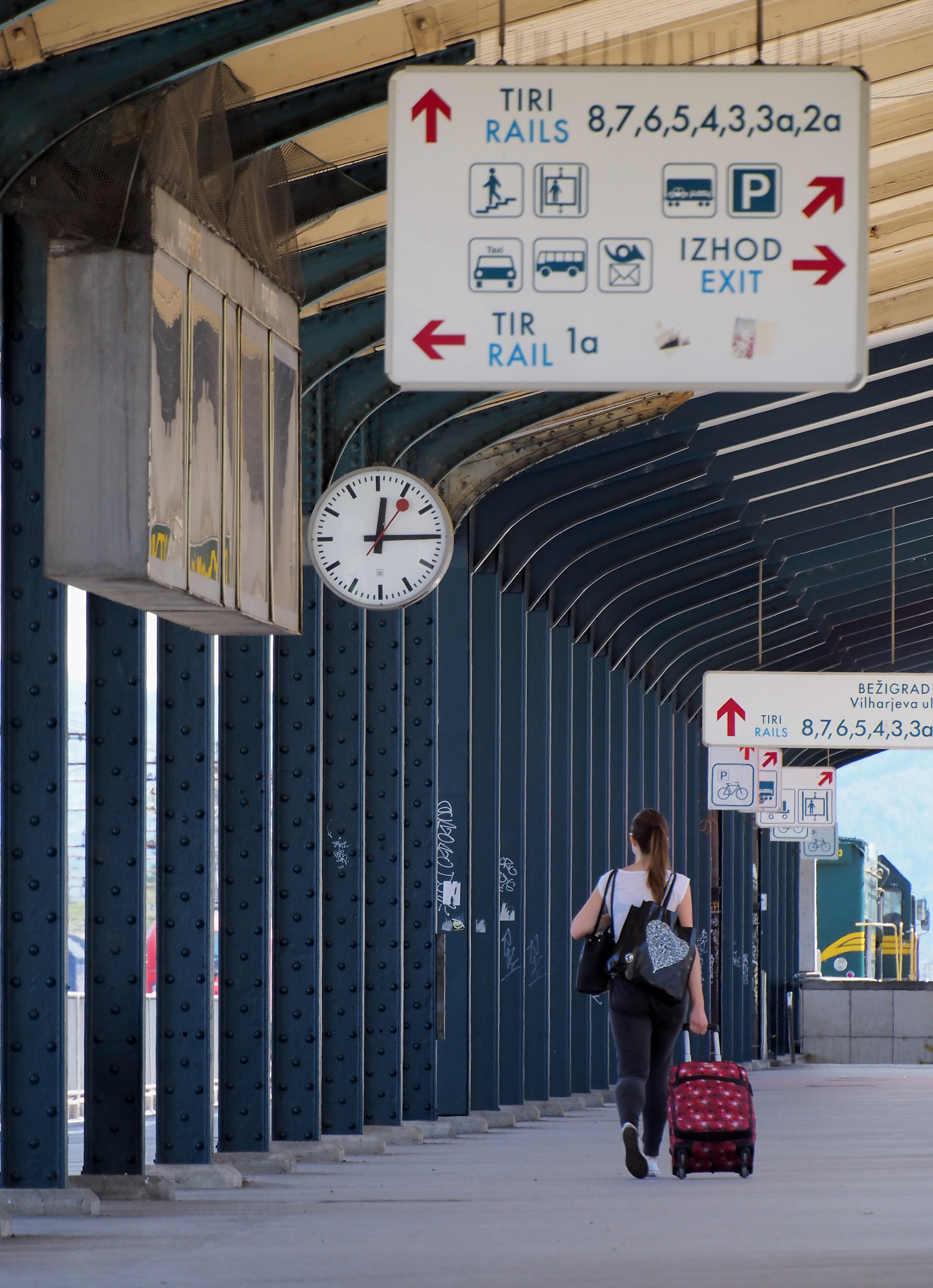 A passenger getting onboard of a train.